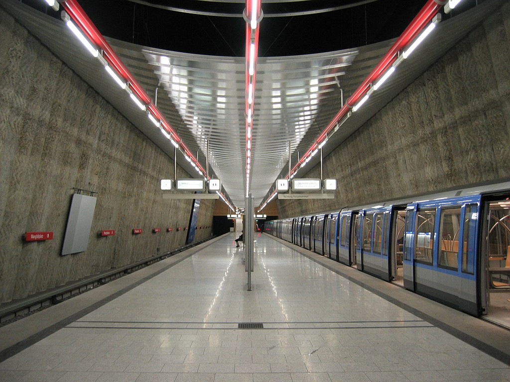 Munich subway station Mangfallplatz (U1)